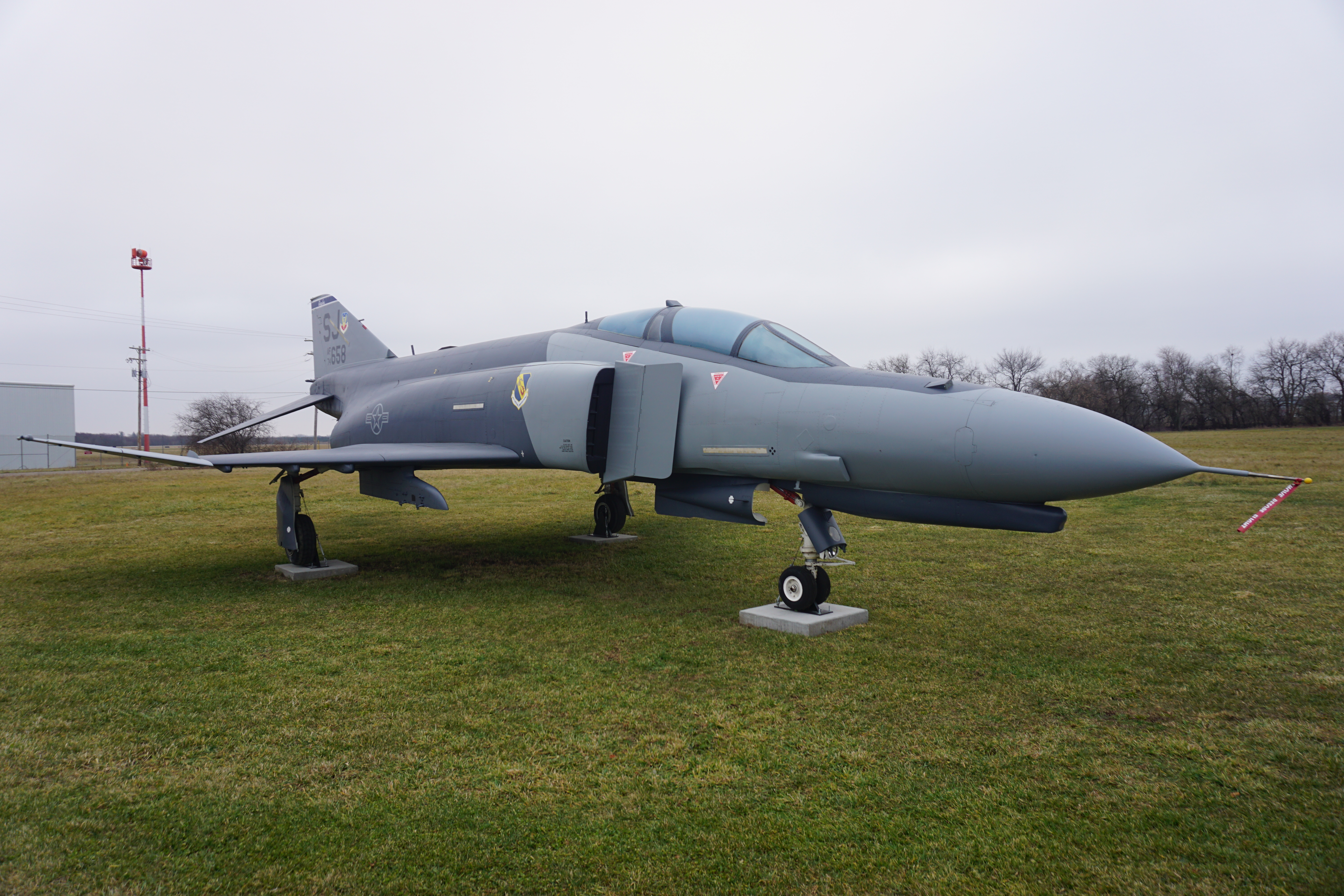 A McDonnell Douglas F-4E Phantom II on display at the Air Zoo at Kalamazoo/Battle Creek International Airport in Portage, Michigan (United States).